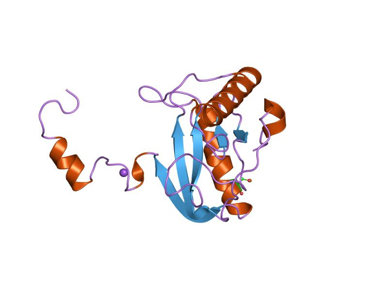 Cartoon representation of the molecular structure of protein registered with 1sk4 code.